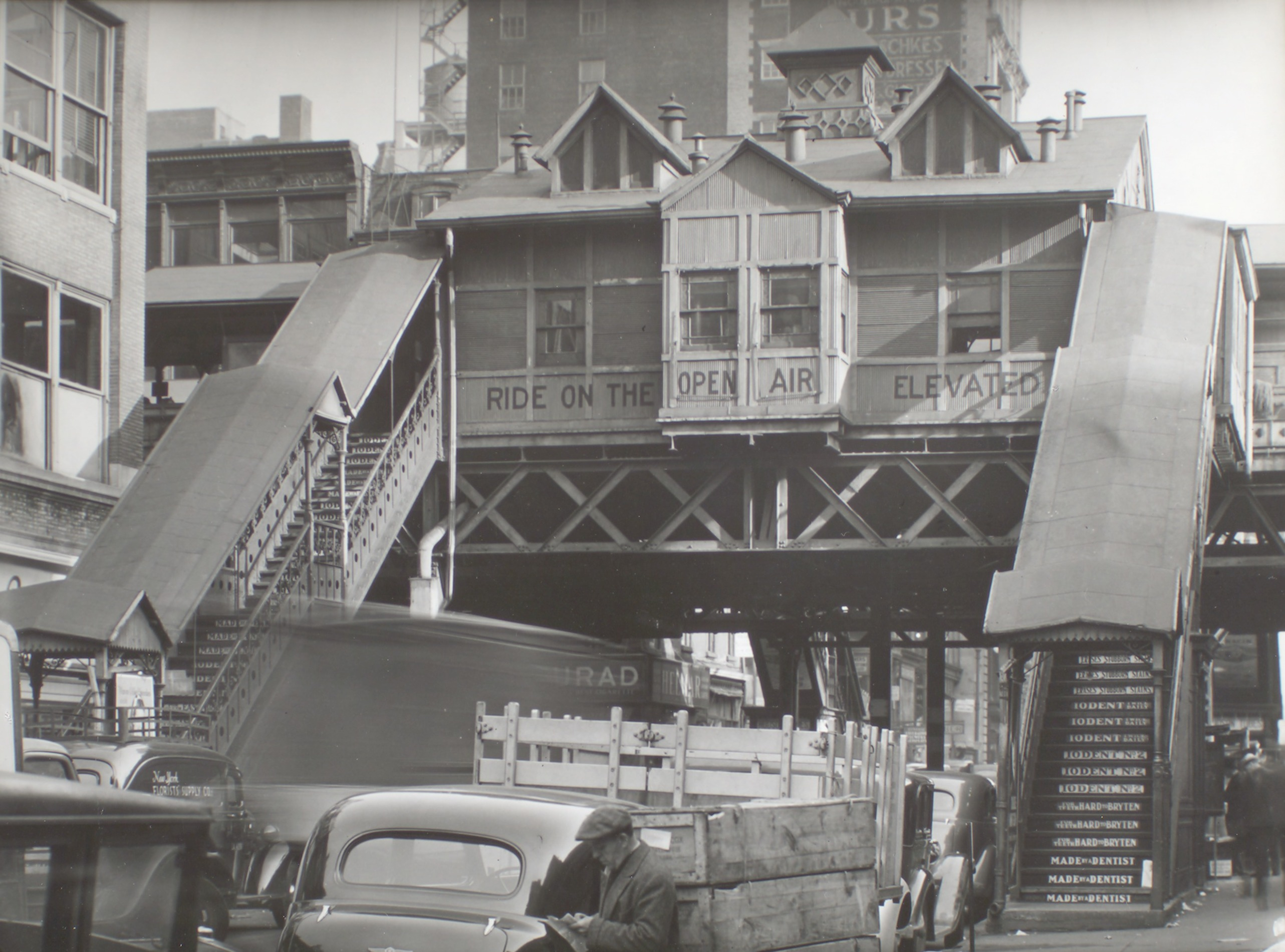 Code: II.A.2.f.2. Street clogged with traffic below 'el,' stairs leading up have ads painted on them, sign on station: 'ride on the open air elevated.' Citation/Reference: CNY# L33